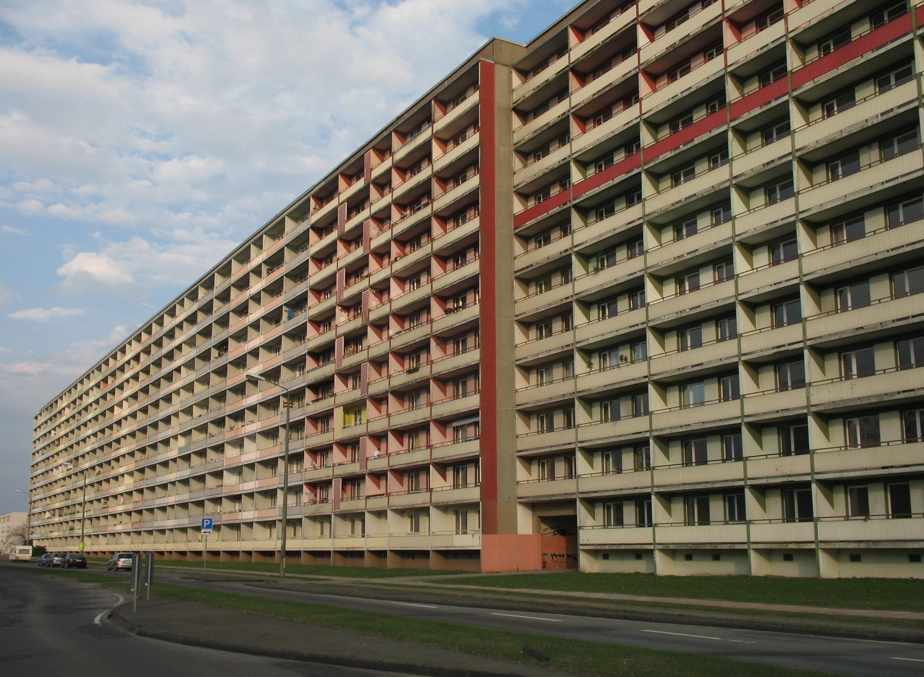 Dr.-Wilhelm-Külz-Str. in Hoyerswerda in Saxony, Germany